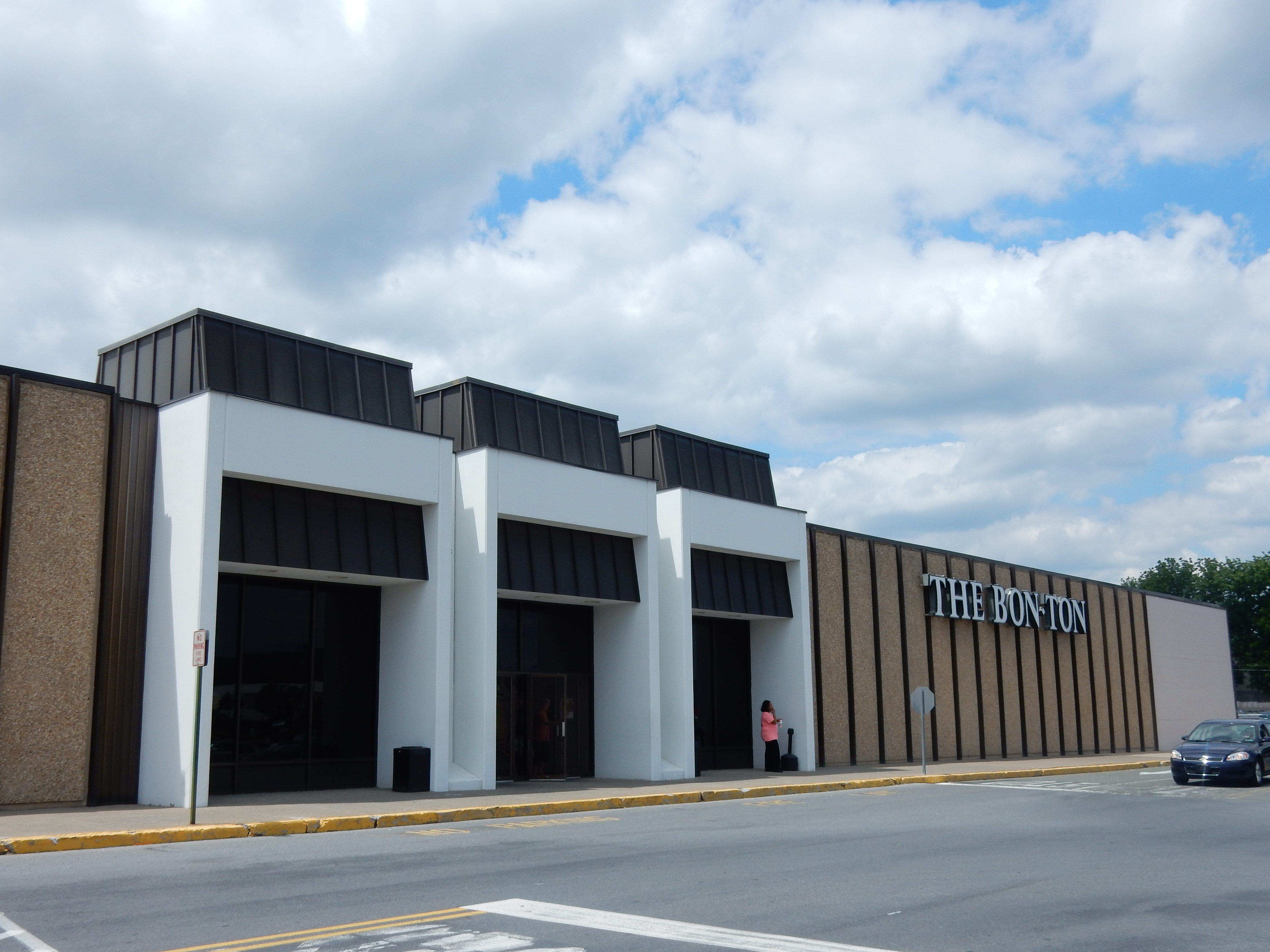 South Mall in Allentown and Salisbury Township, Lehigh County, Pennsylvania.